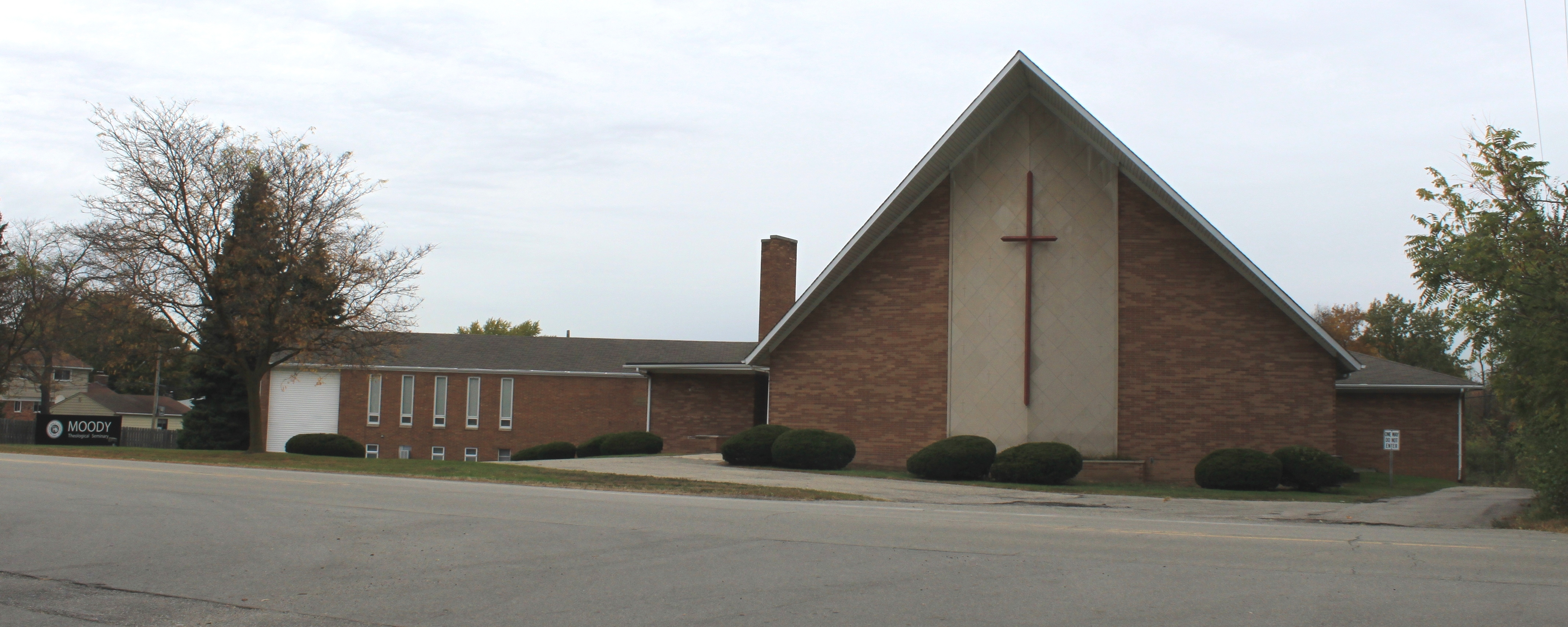 Moody Theological Seminary, 41550 E. Ann Arbor Trail, Plymouth, Michigan